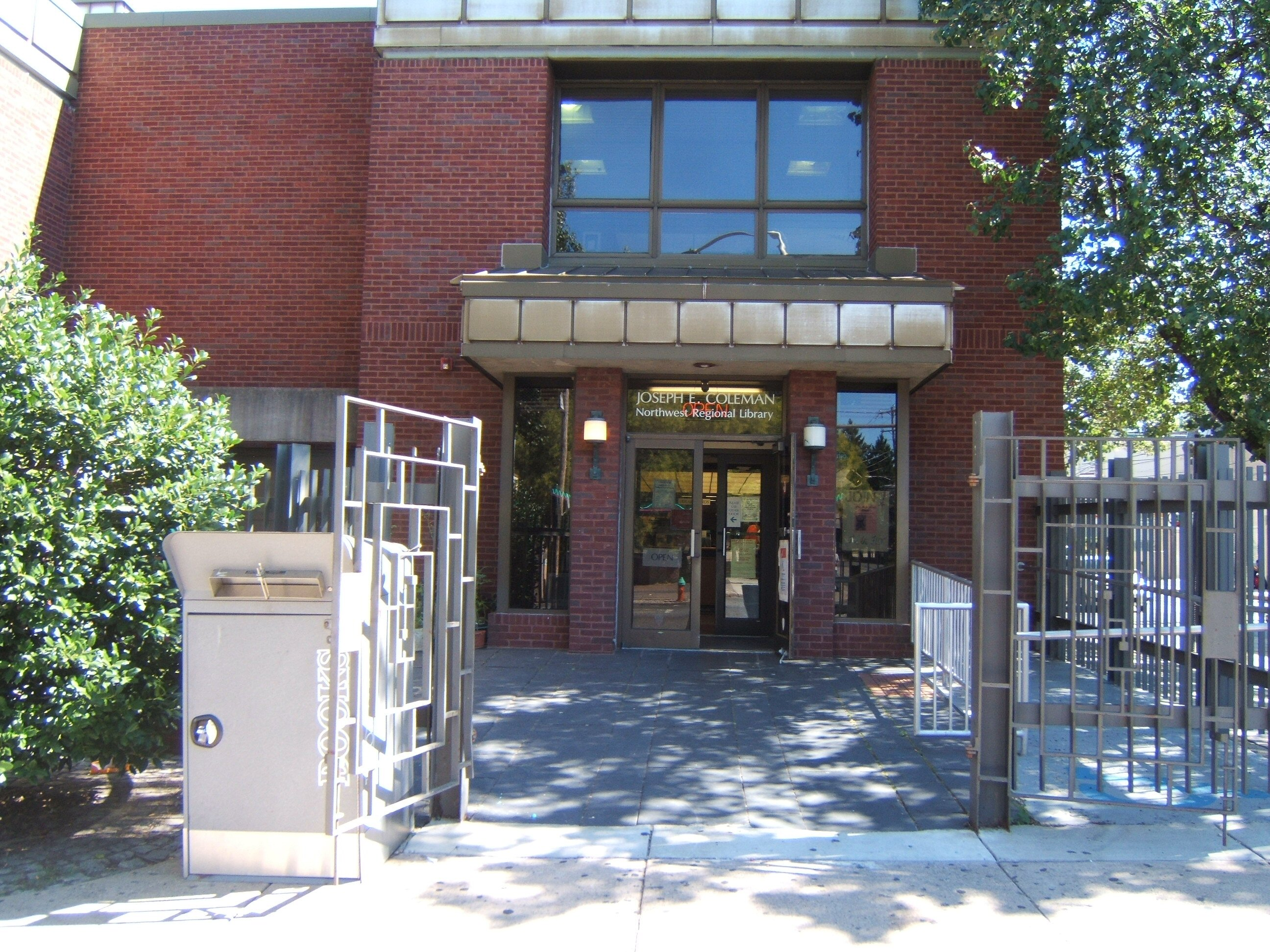 Free Library of Philadelphia, Joseph E. Coleman Northwest Regional Library, 68 West Chelten Avenue, Philadelphia, PA 19144-2795